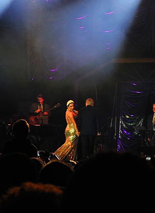 Cropped version of Lady Gaga and Tony Bennett promoting Cheek to Cheek in Brussels